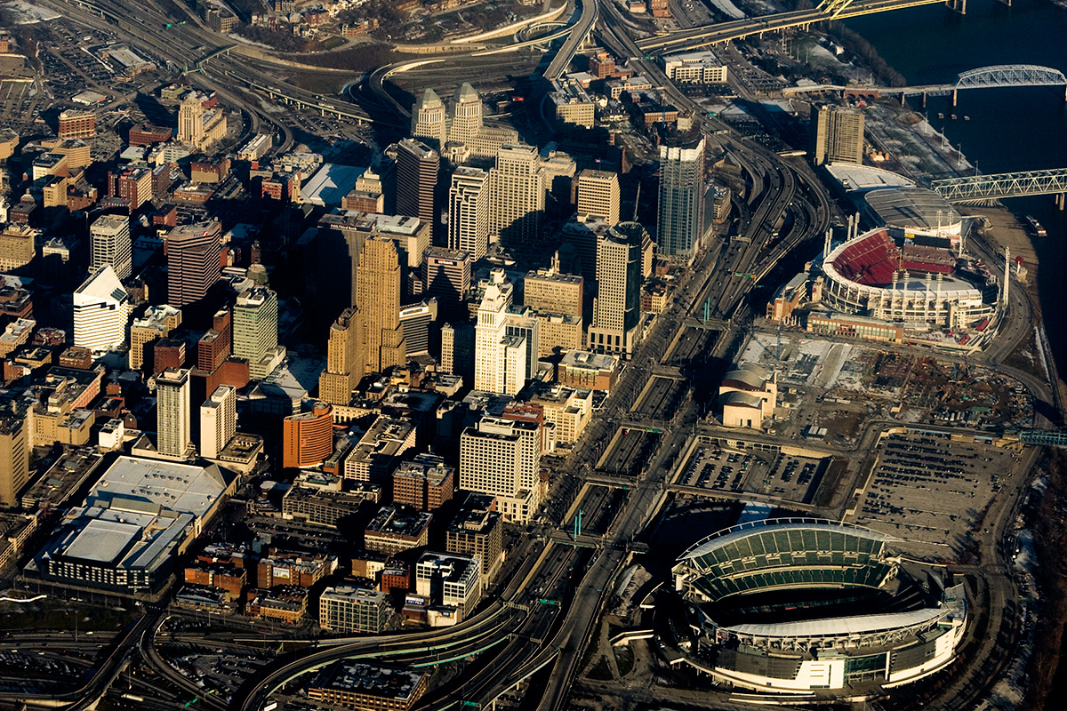 Aerial photo of downtown Cincinnati taken on a return flight from Houston, Texas